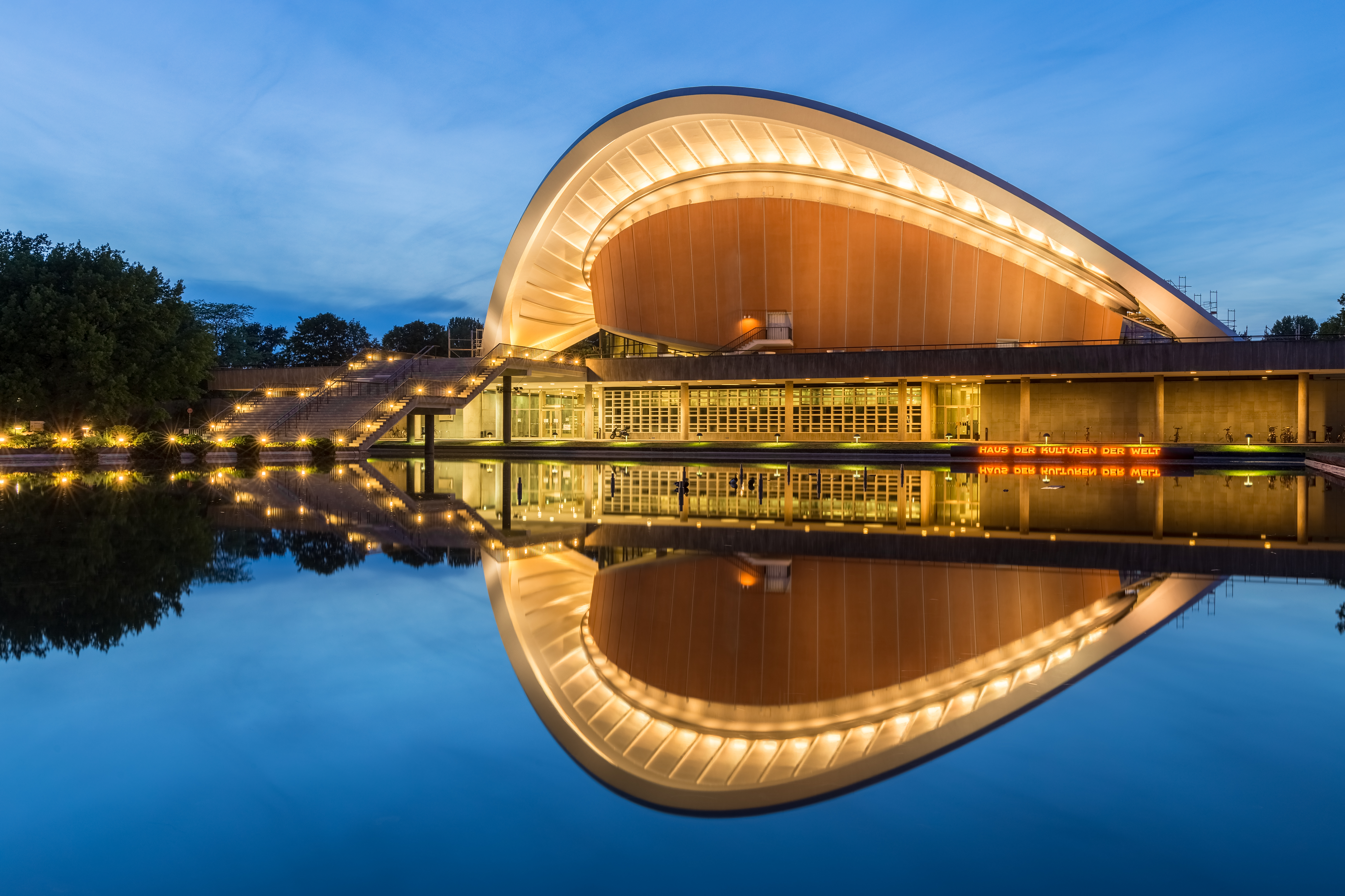 Haus der Kulturen der Welt, Berlin. The building is located in the Tiergarten park. It was formerly known as the Kongresshalle conference hall. It was designed in 1957 by the American architect Hugh Stubbins. The building is reflecting in the water basin in front of it.